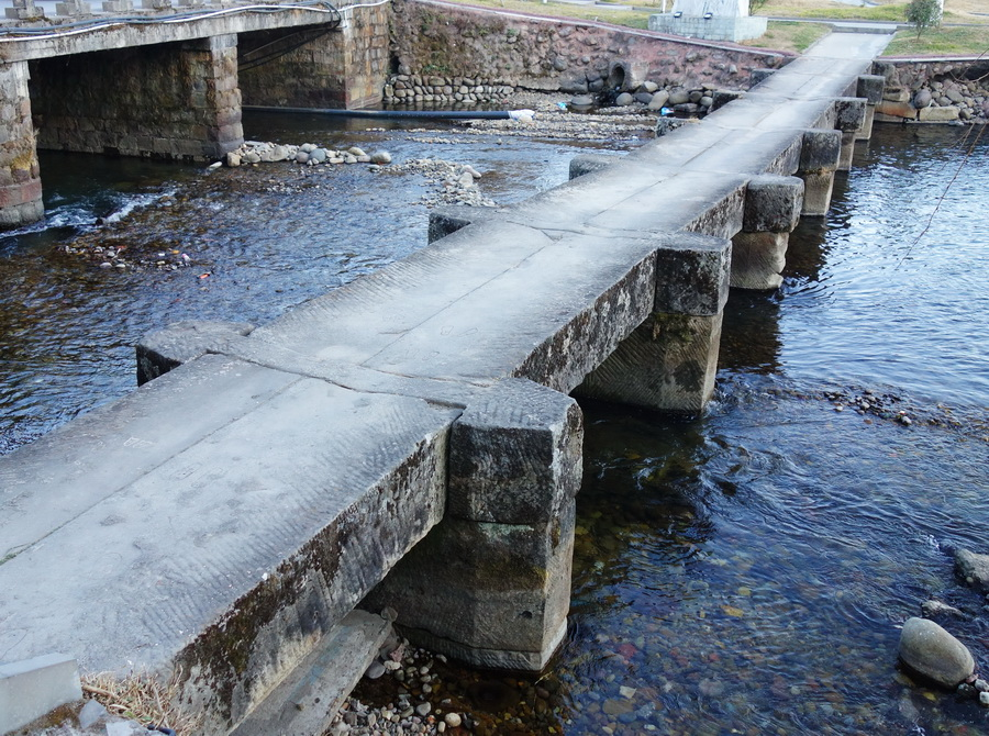 Ancient Tea-horse Road - Dingshan bridge